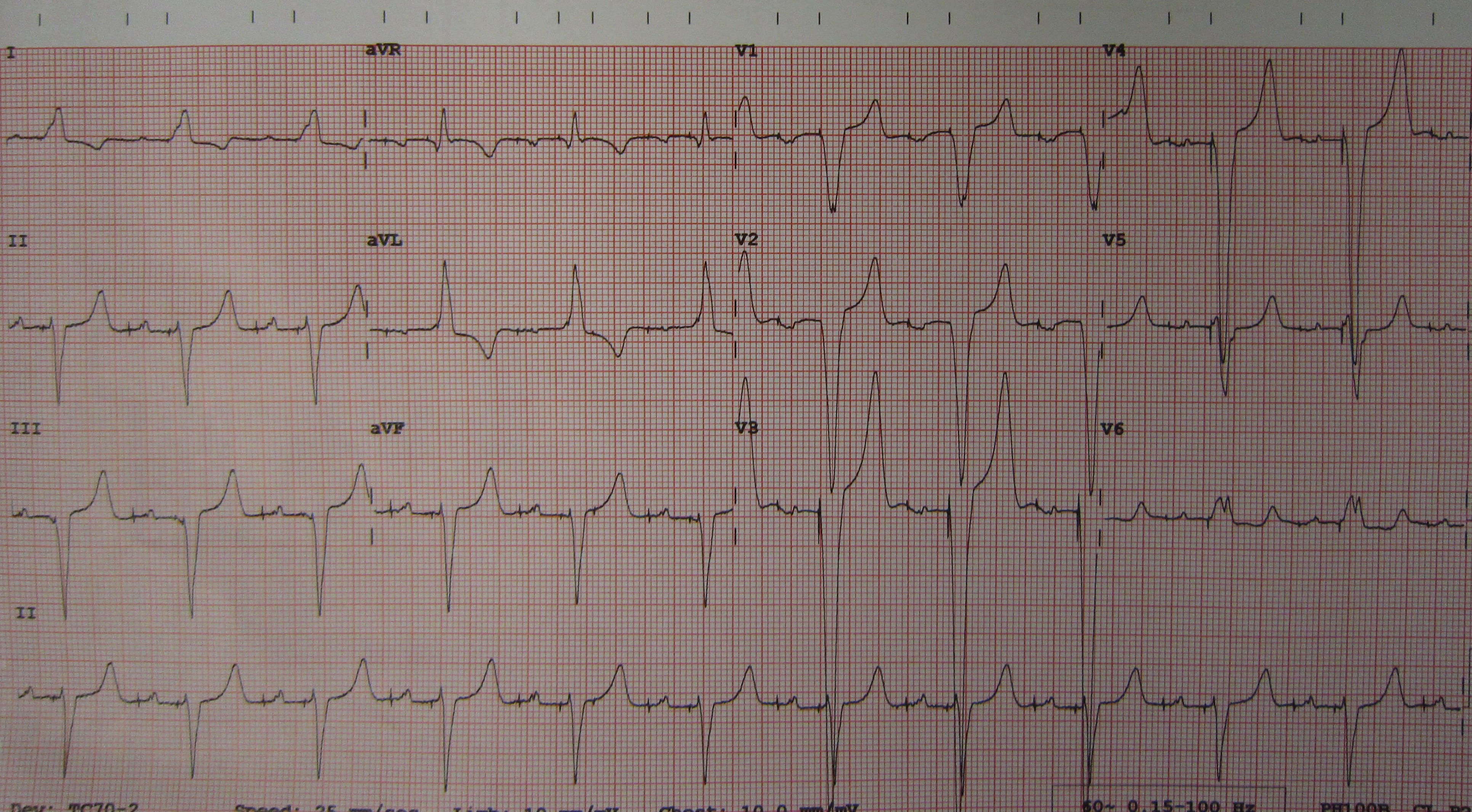 An ECG from a person with a normally functioning dual chamber pacemaker